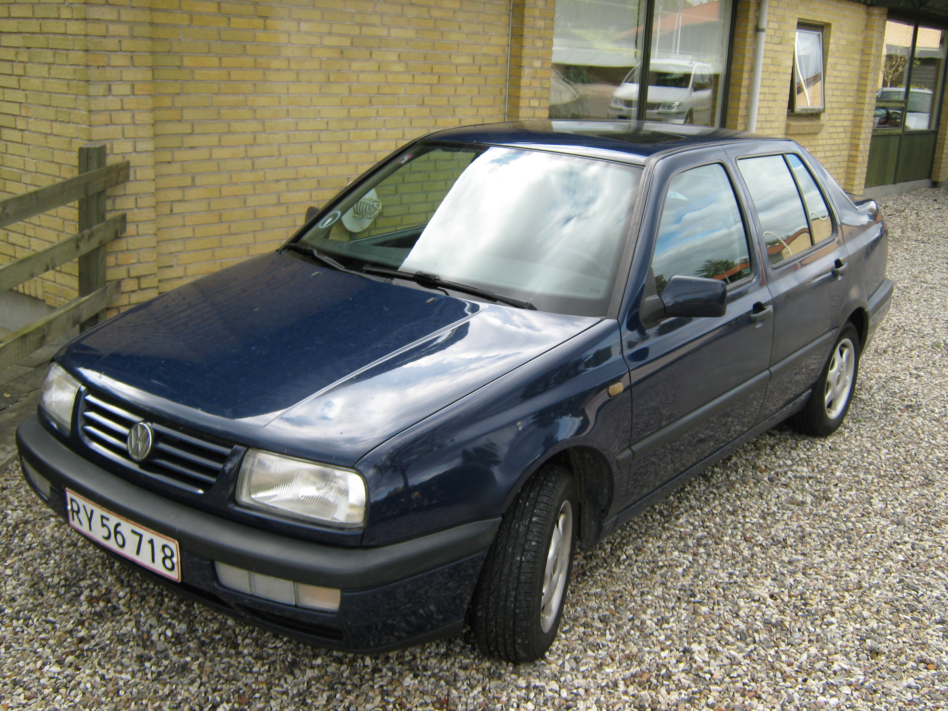 Volkswagen Vento (also known as Volkswagen Jetta Mk3) photographed in Værløse, Denmark. First registration date: August 20, 1996 Engine: Volkswagen type "ADZ". Displacement 1,781 cm³, output 66 kW (90 hp) at 5,500 rpm, torque 145 Nm at 2,500 rpm